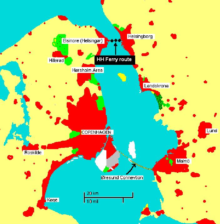 Map of Øresund which shows location of the HH Ferry route